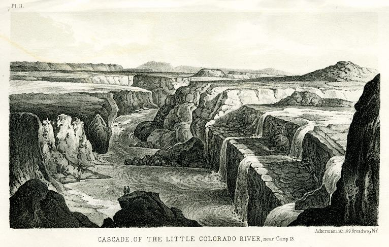 An 1851 lithograph titled "Cascade of the Little Colorado River, near Camp 13" by J. Ackerman from the book "Report of an Expedition down the Zuni and Colorado Rivers, 1853." which is about the United States Army's Sitgreaves Expedition.